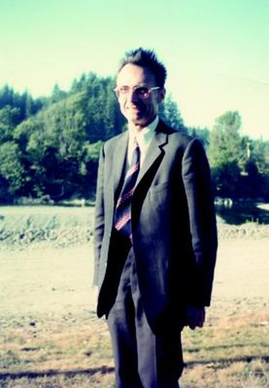 Pierre Dolbeault, 1974 or 1975